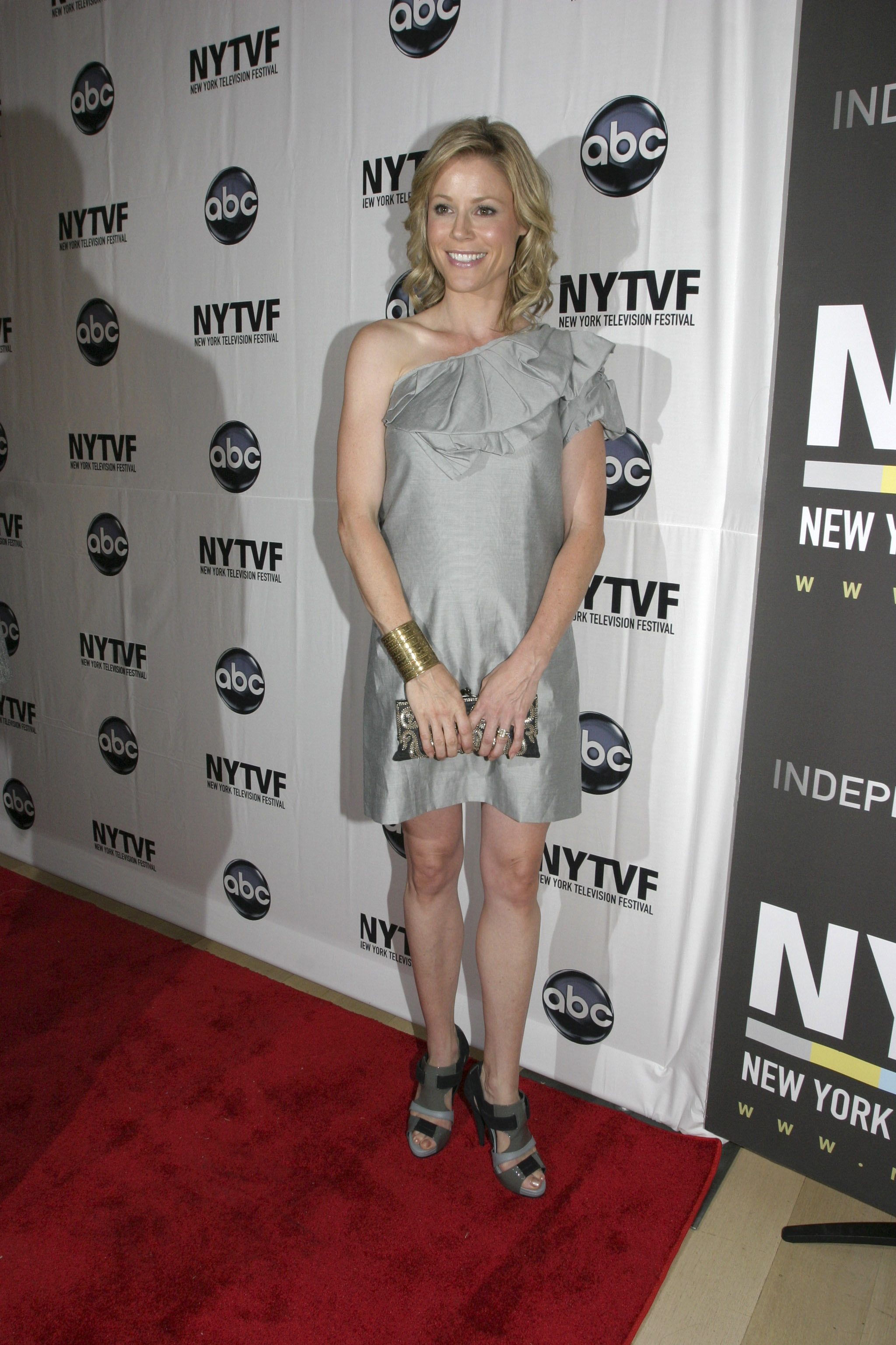 Julie Bowen at the New York Television Festival. © Rubenstein, photographer Martyna Borkowski depicted person: Julie Bowen (age: 39.55)